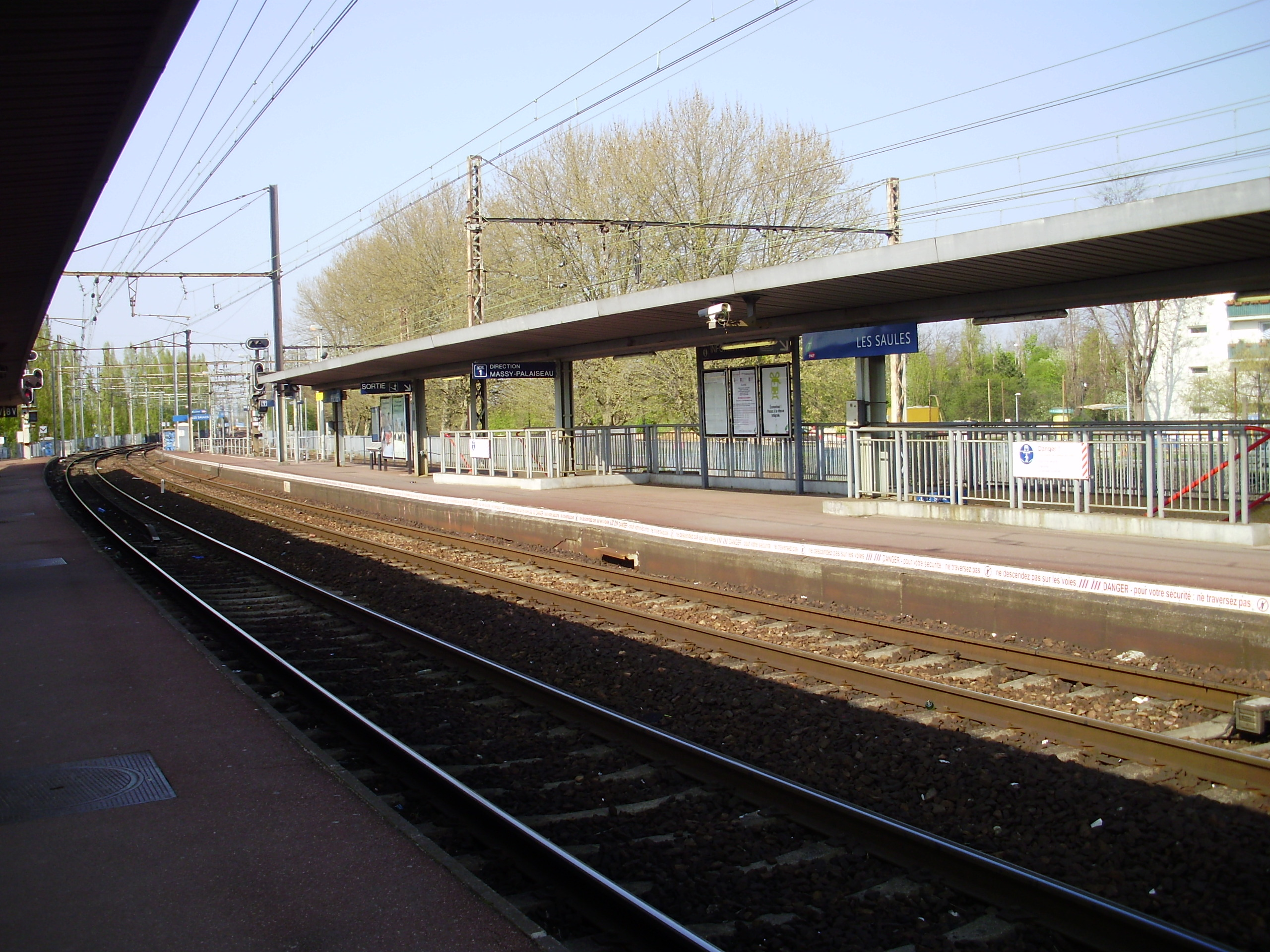 Platforms of Les Saules station, in Orsay, Val-de-Marne, France